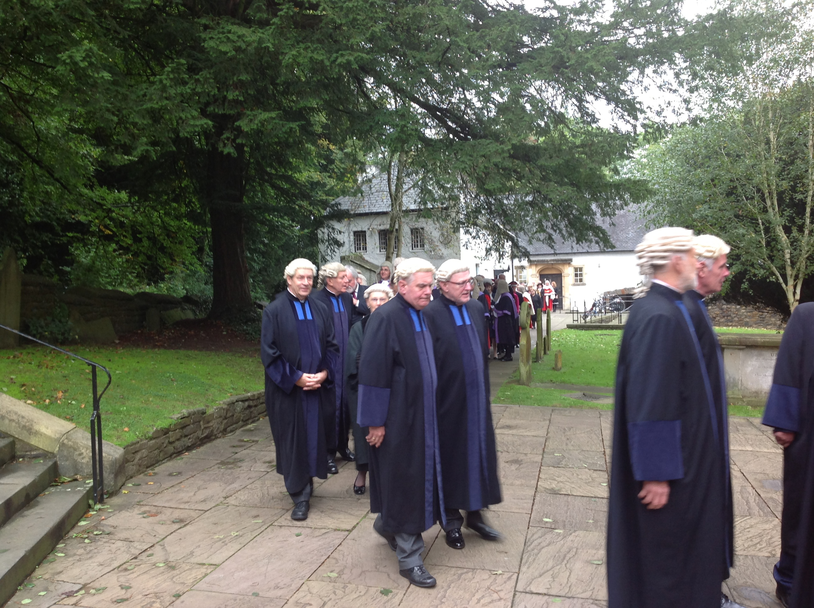 The Legal Service for Wales at Llandaff Cathedral. 13 October 2013